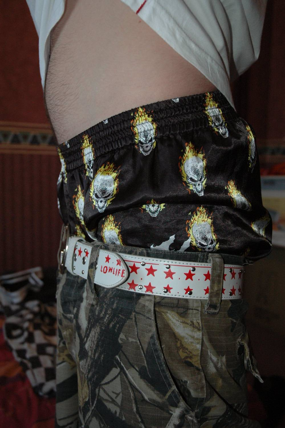 Satin boxer shorts sag.